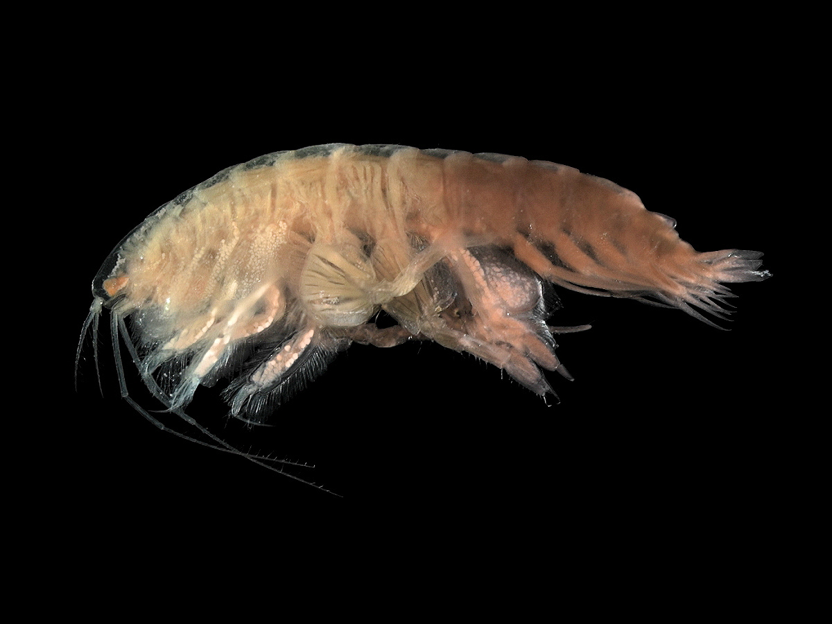 A fossorial amphipod from the Belgian Continental Shelf.Camera mounted on a Zeiss Stemi C-2000 binocular microscopeLength: ~8 mm.